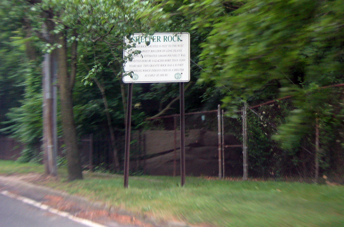 Shelter Rock, a rock shelter in North Hills or Manhasset, New York (on the border) as seen from a moving car on Shelter Rock Road.